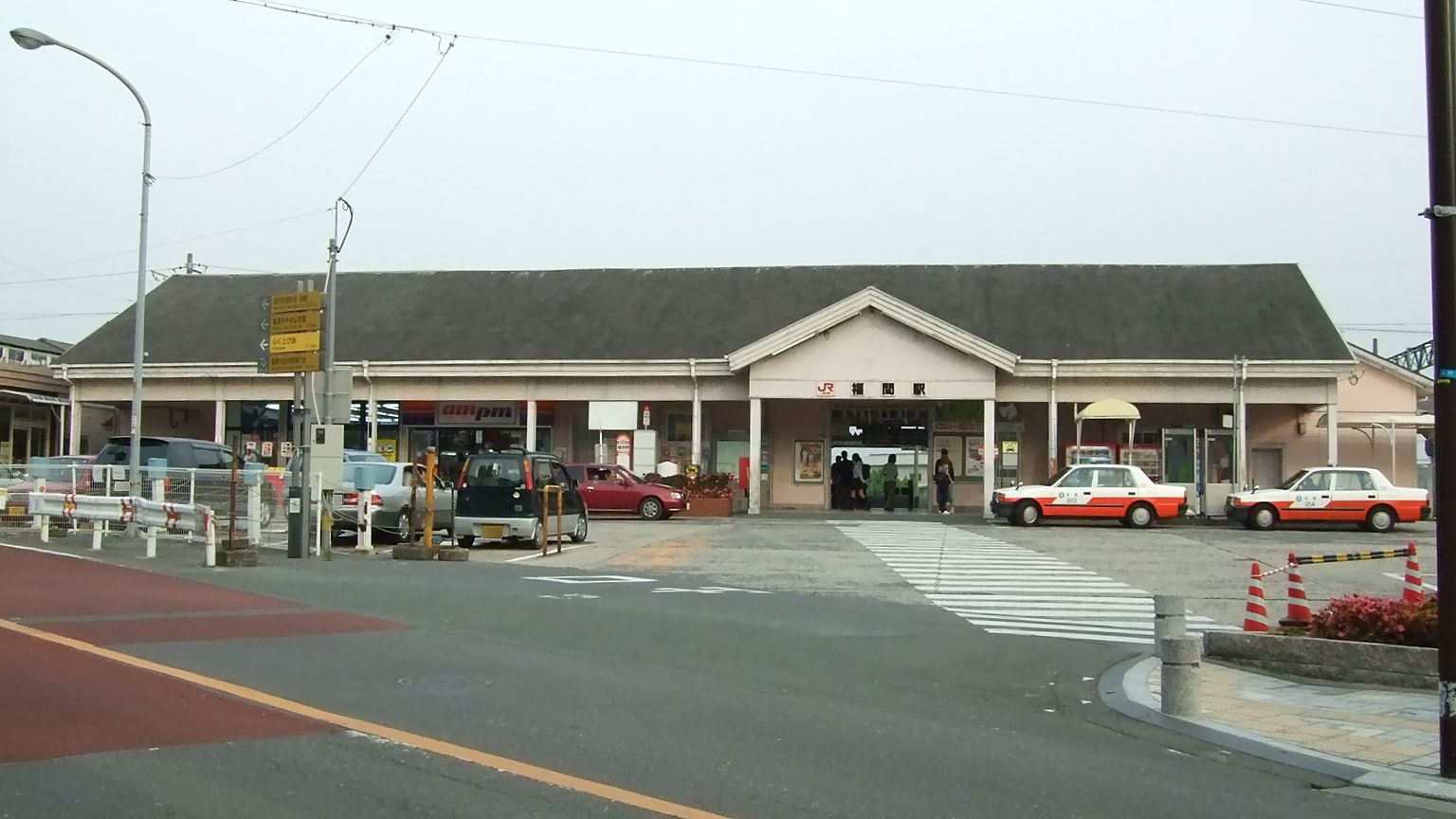 Fukuma Station, Kagoshima Main Line, JR Kyushu.